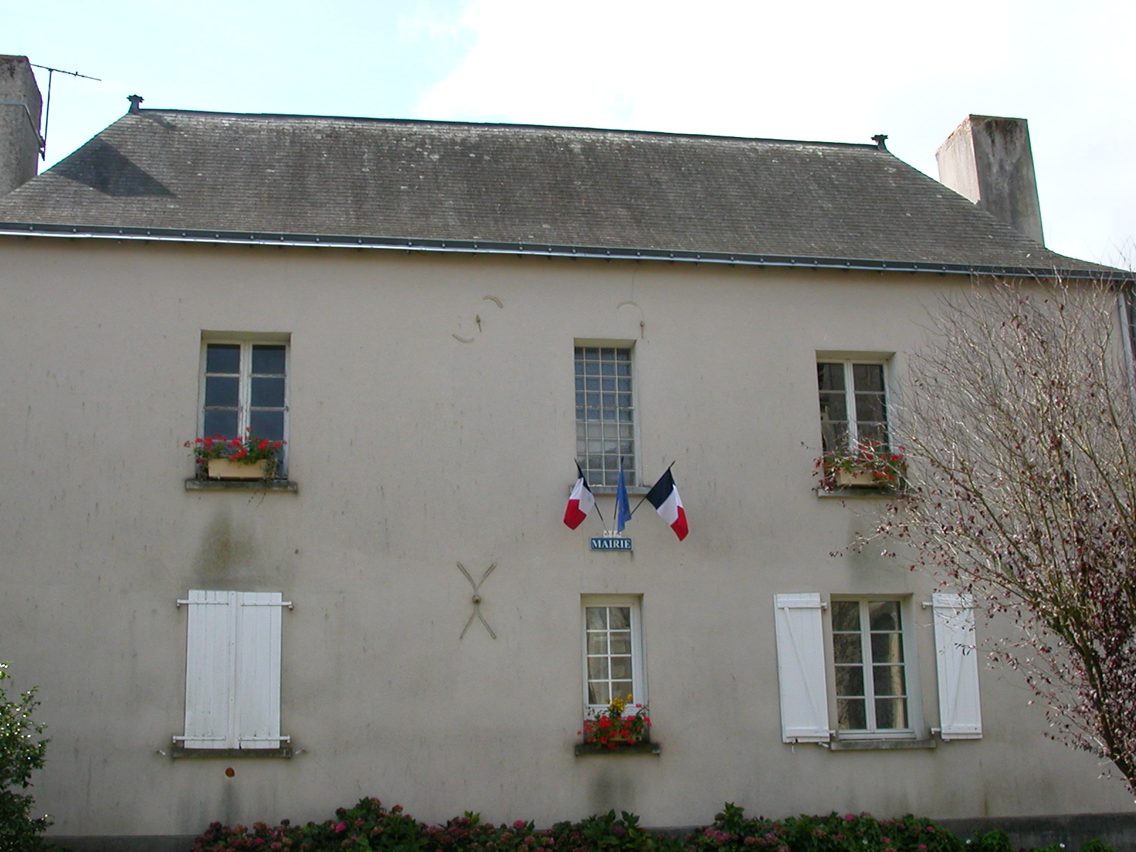 Town hall of La Ferrière-de-Flée